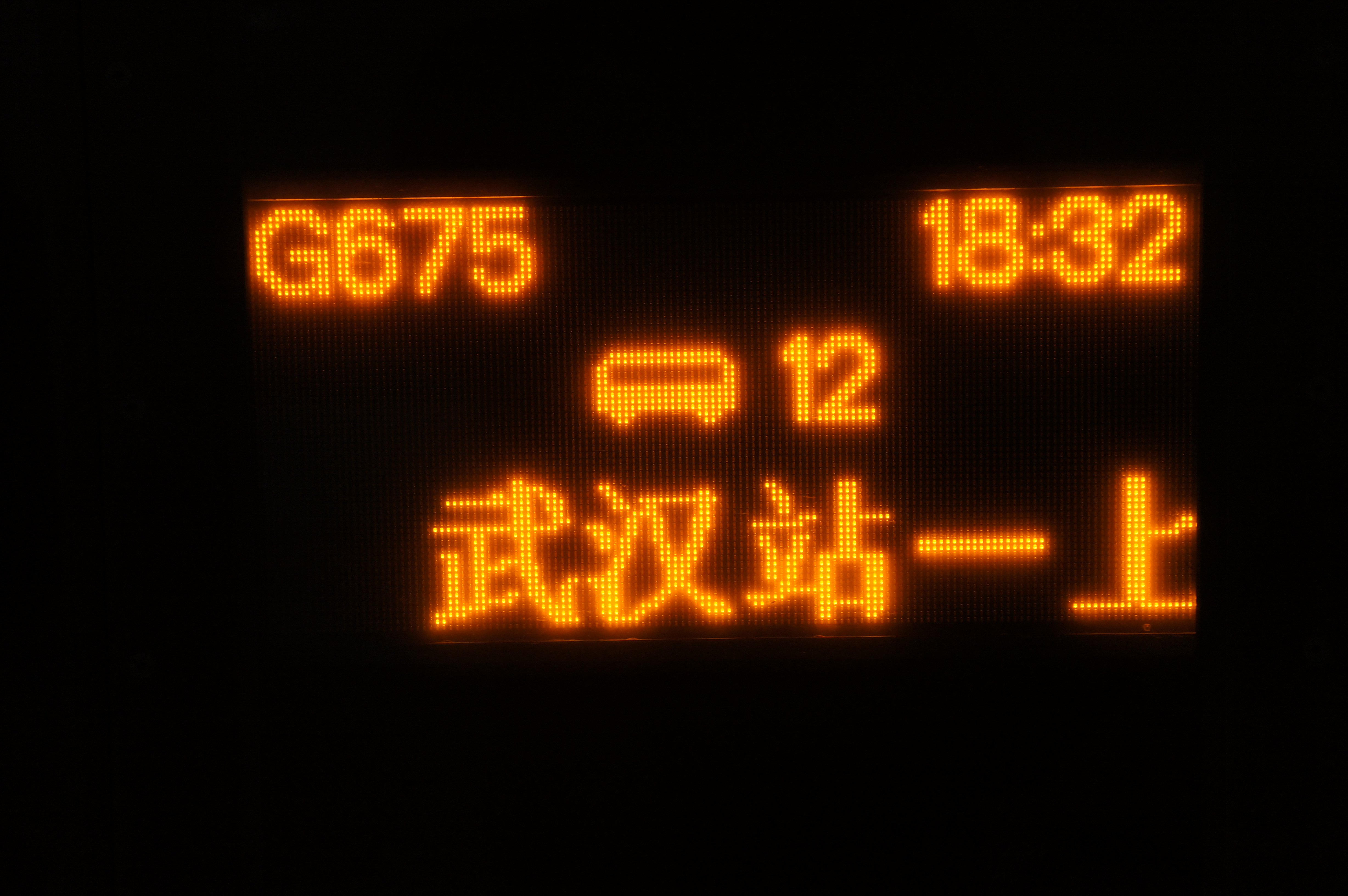 201805 Infoboard of G675